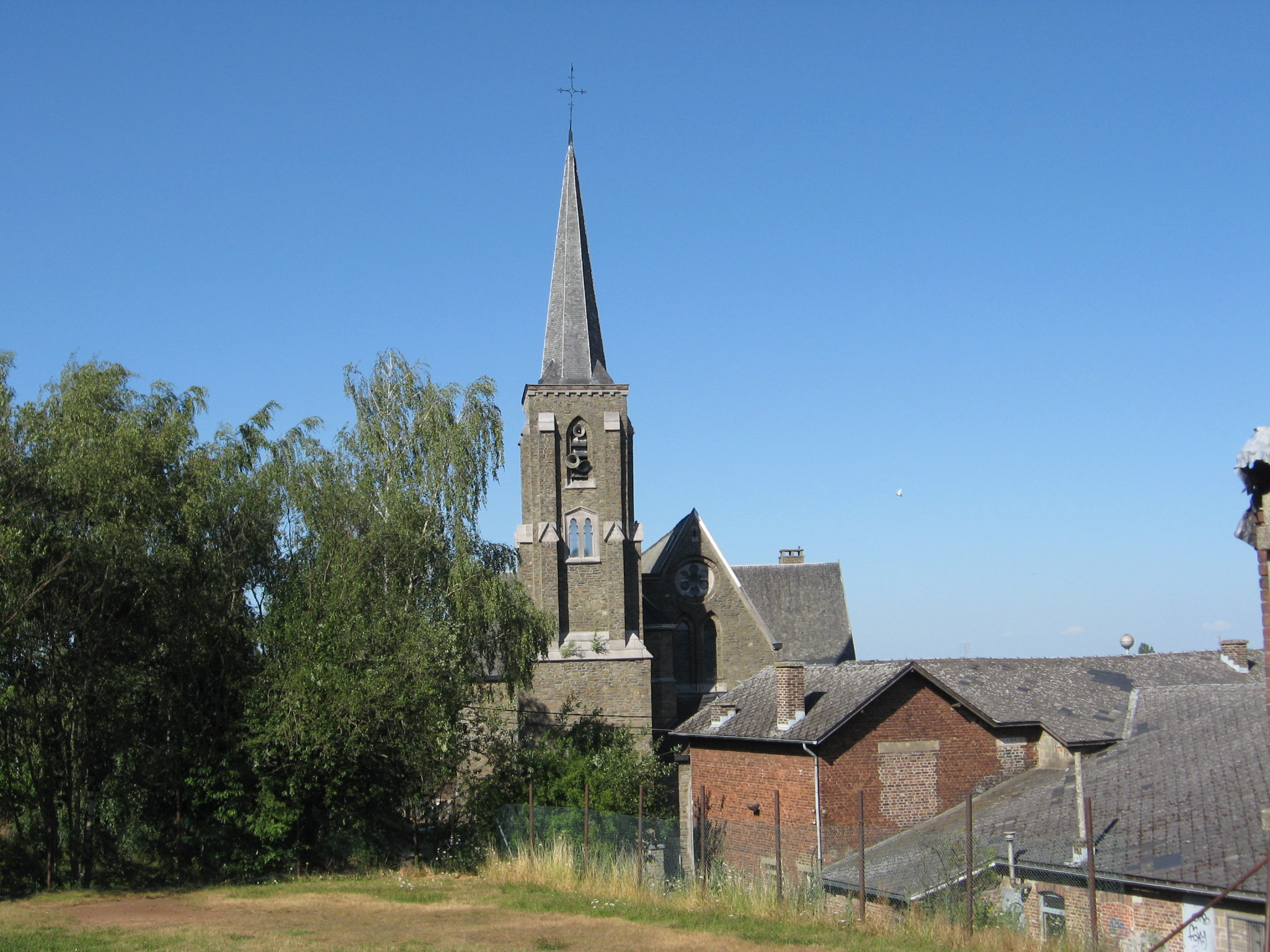 Church of Saint Hubert in Milmort, Herstal, Liège, Belgium